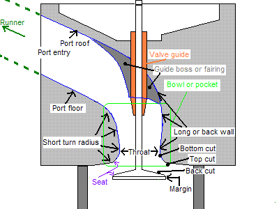 I created this for the cylinder head porting article